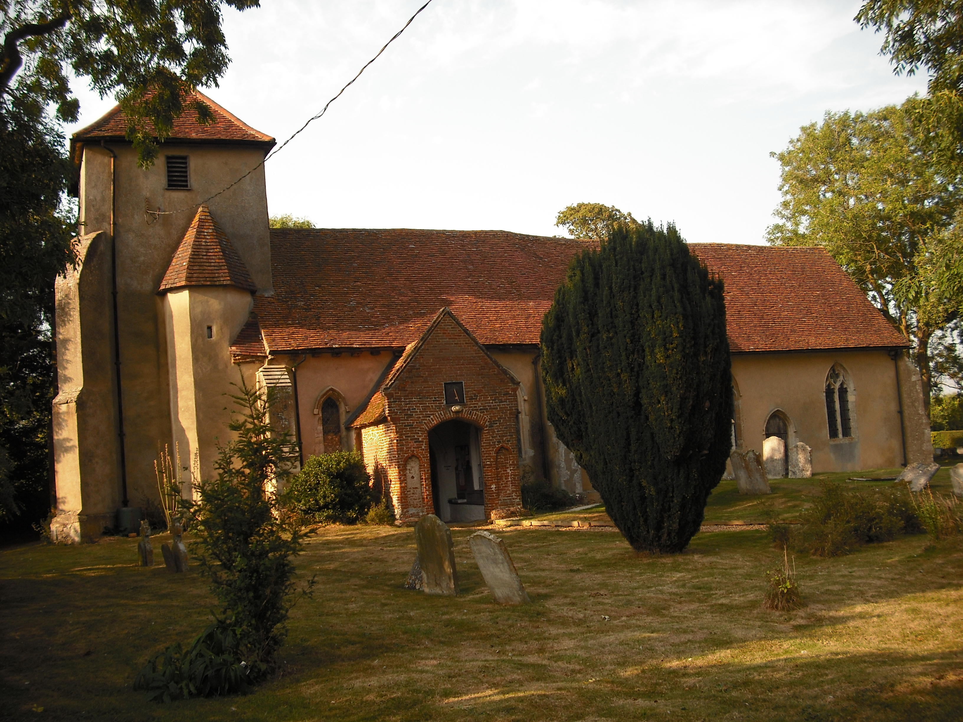 St Margaret's parish church, Whatfield, Suffolk, seen from the southeast